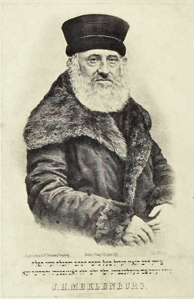 Picture of Yaacov Zvi Meklenburg